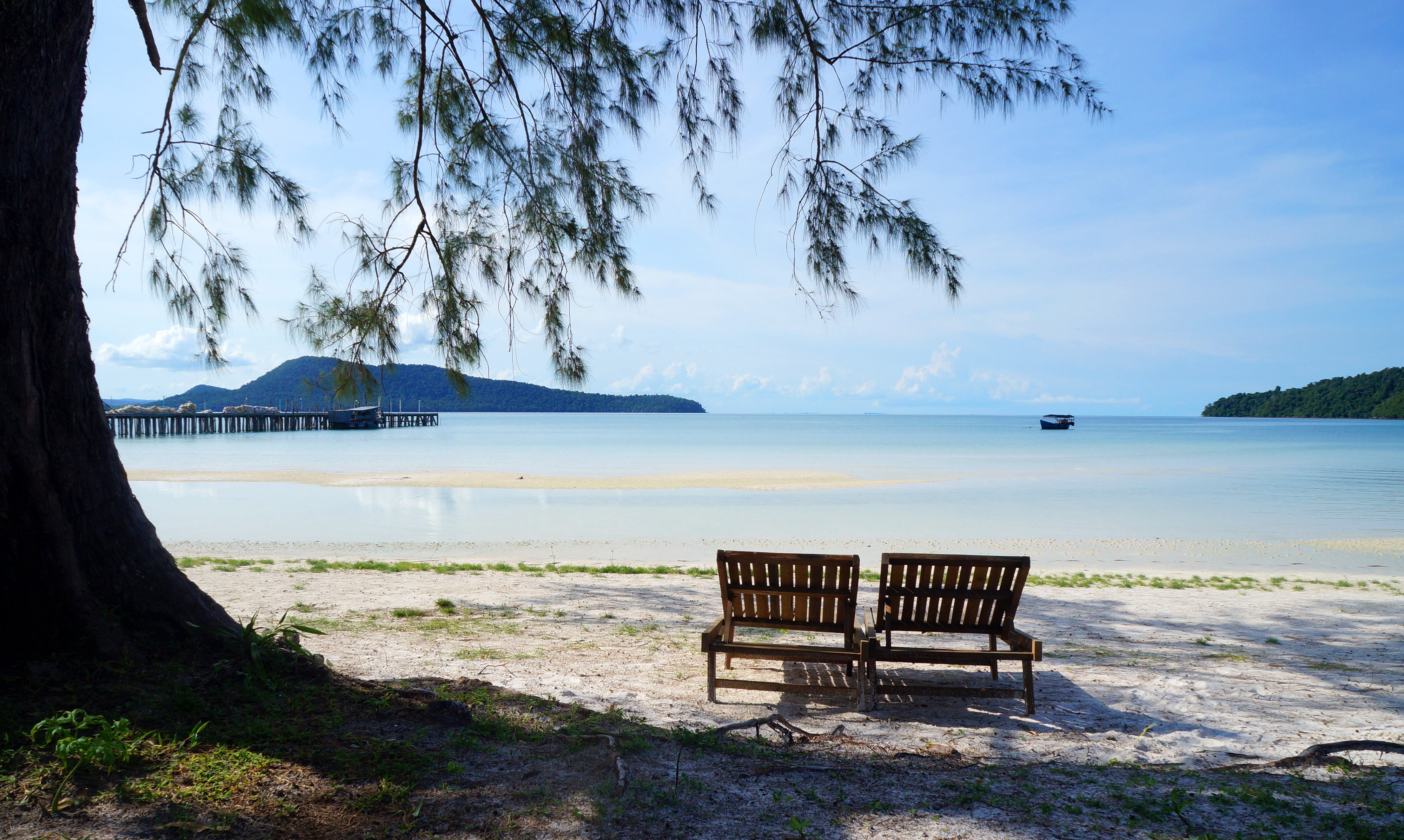 image of paradise beach of Koh Rong Sanloem, Cambodia